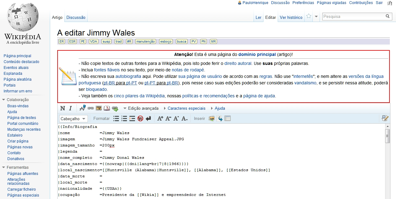 A screenshot of the editing interface on Wikipedia.